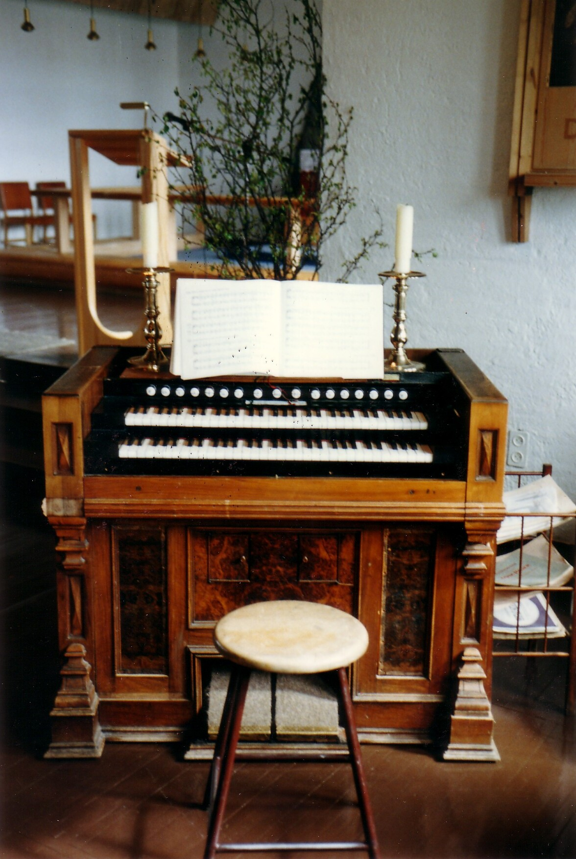 Phillippe J. Trayser & Cie harmonium of ca. 1875 in Vardø Church, North Norway. It is now in the Stegelnes Chapel in the same city.